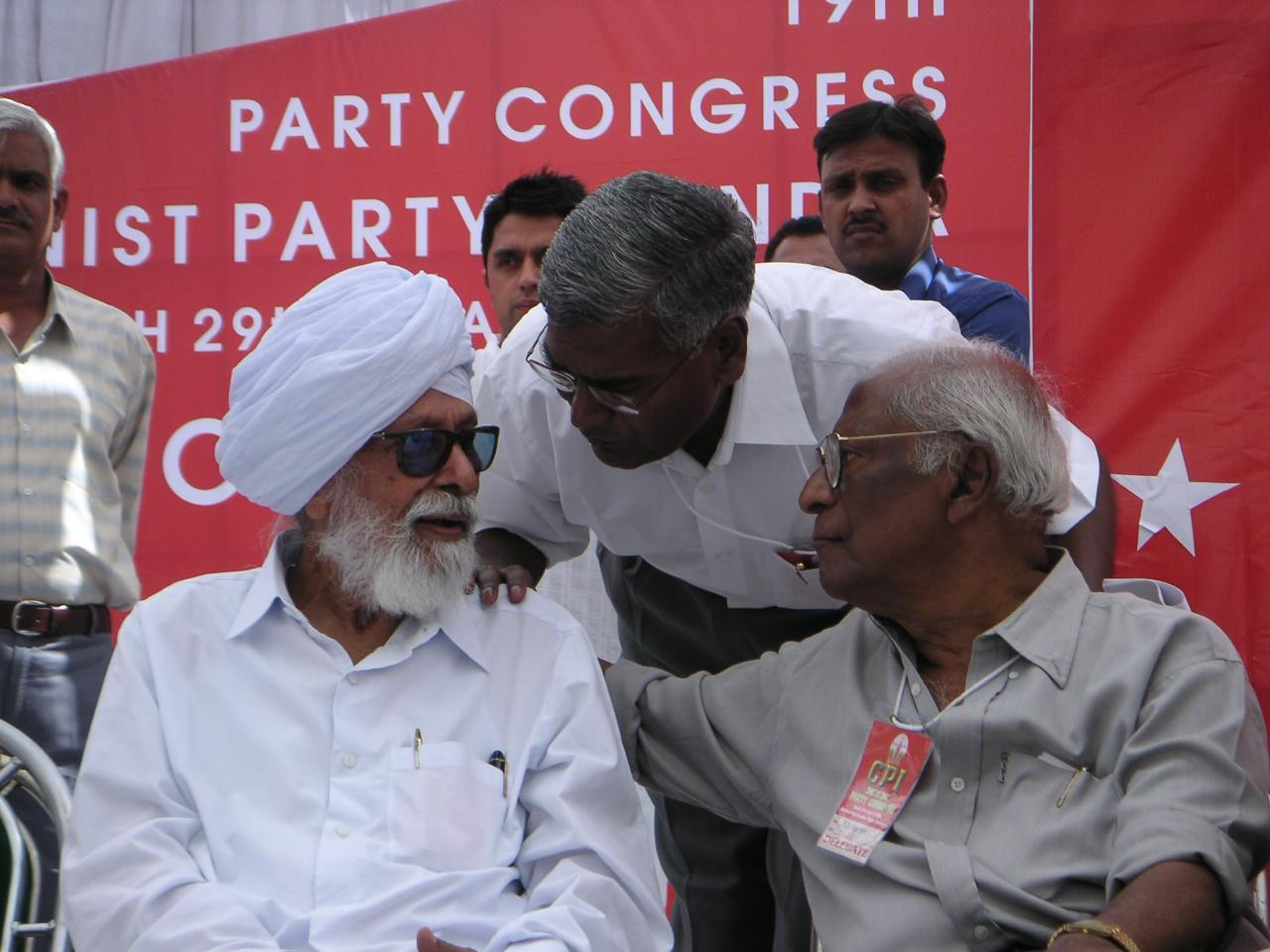 Three leaders of the Indian communist movement, on the dais of open session of the 2005 congress of the Communist Party of India in Chandigarh. Harkishan Singh Surjeet gen.sec of Communist Party of India (Marxist), A.B. Bardhan gen. sec. of CPI and D. Raja of CPI. Photo: Soman